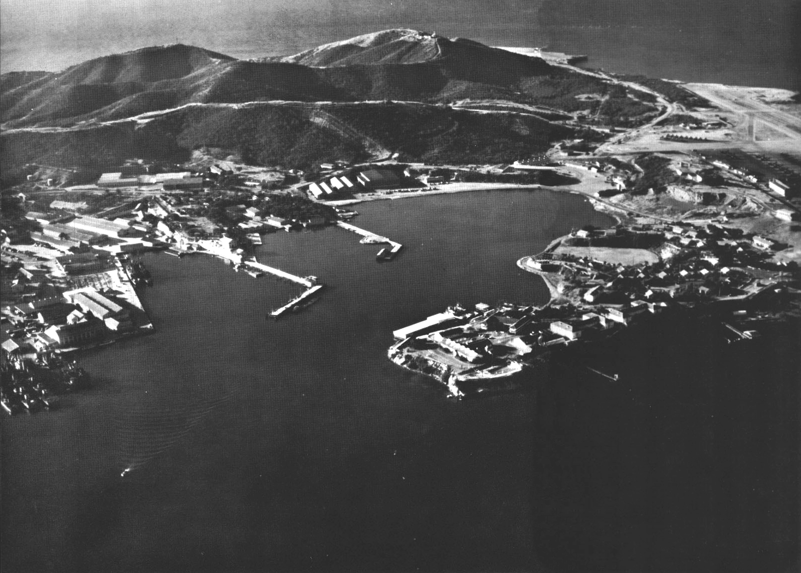 View of the U.S. Naval Base Guantanamo Bay, Cuba, circa in 1962.